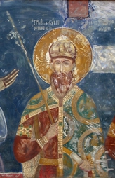 Stefan Prvovenčani, begining of the XIV century (1307—1309), fresco from Bogorodica Ljeviška church in Prizren, Serbia